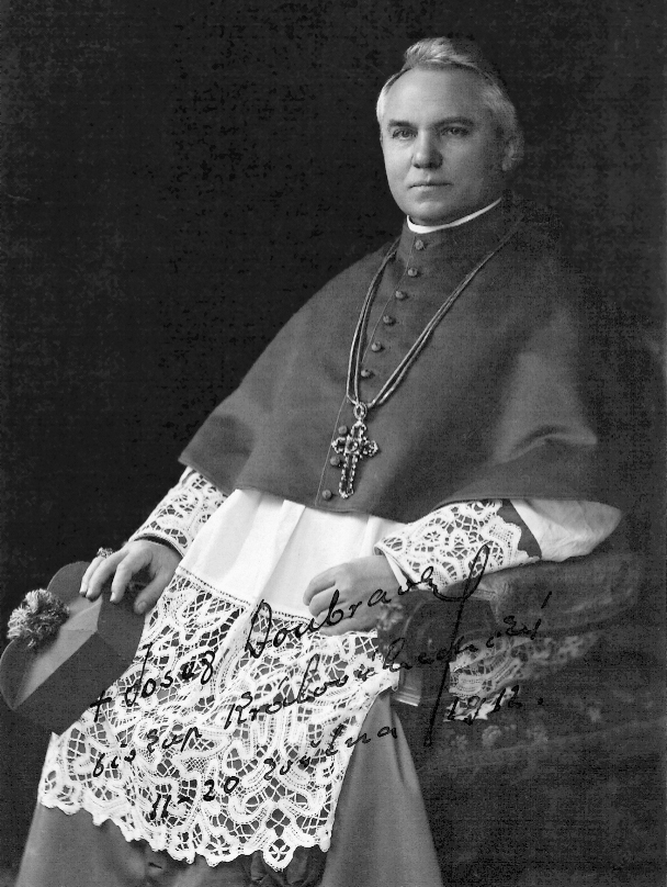 Picture of Josef Doubrava, bishop of Hradec Kralove